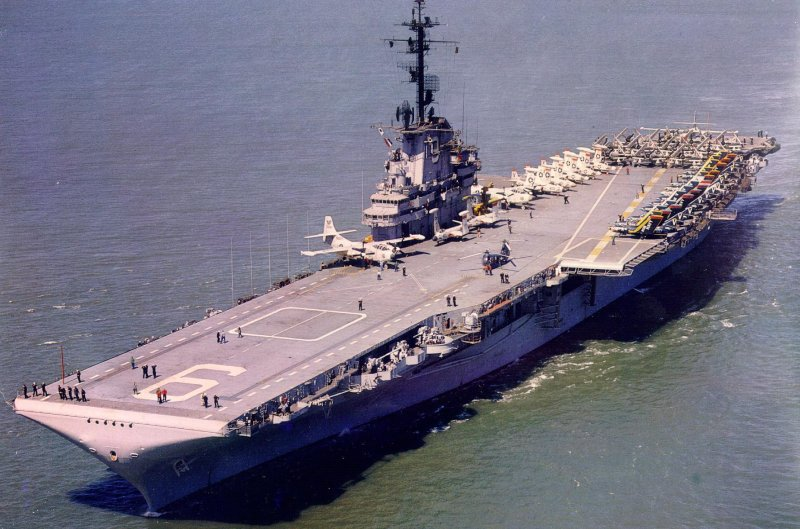 The U.S. Navy aircraft carrier USS Essex (CVA-9) underway. The Essex, with assigned Carrier Air Group 11 (CVG-11) was deployed to the Western Pacific from 16 July 1956 to 26 January 1957.